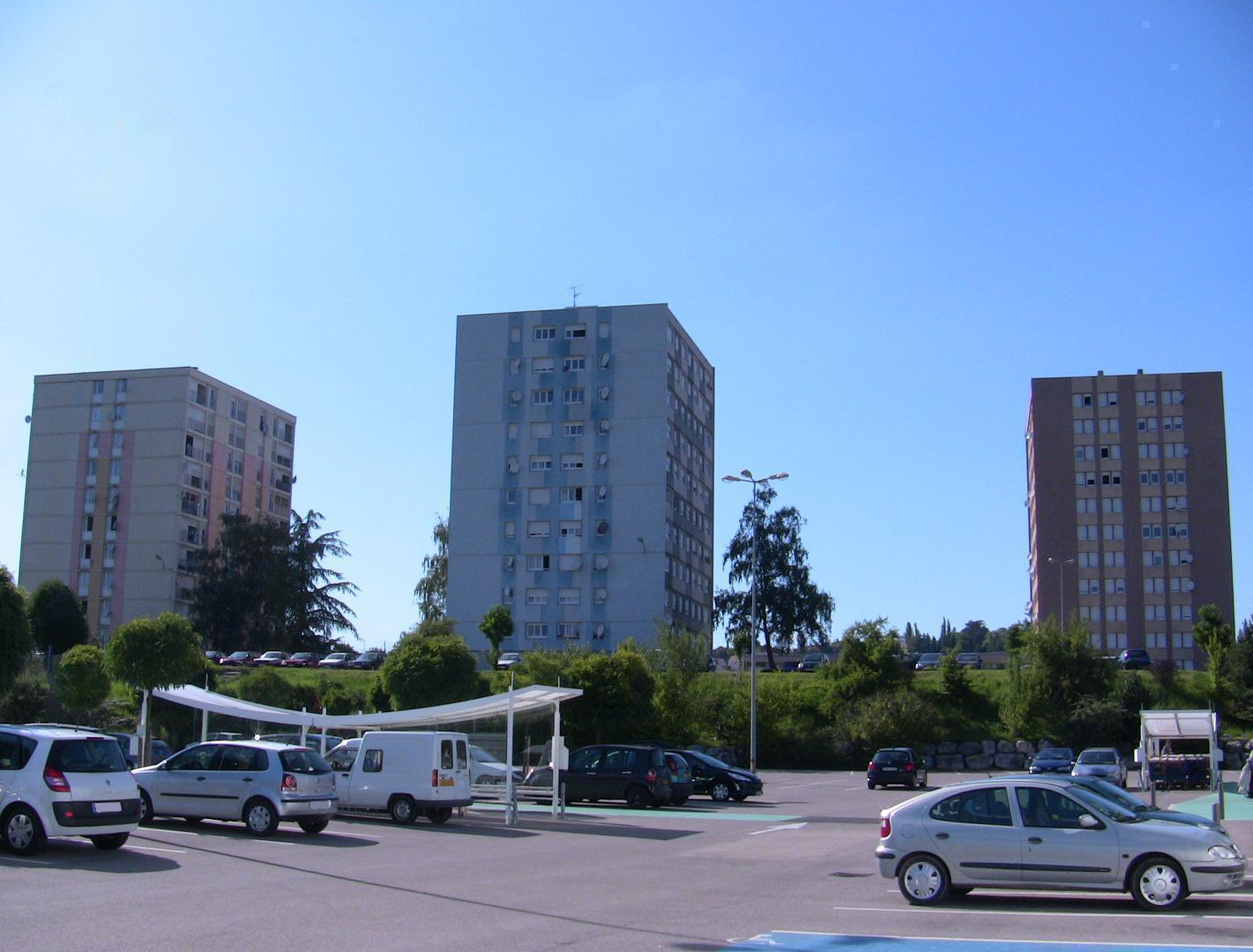 Buildings of "L'amitié", little area of Besançon (France)